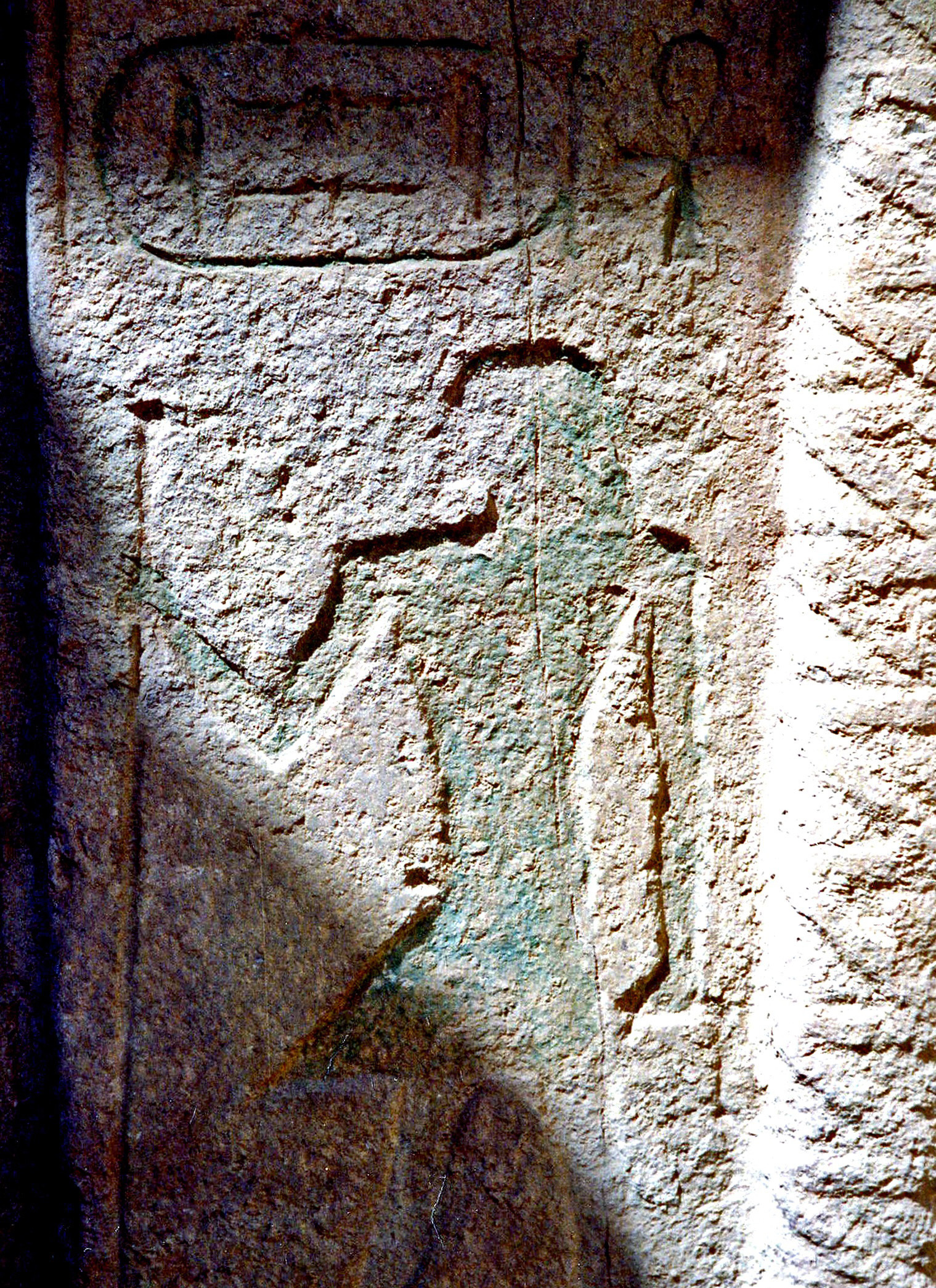 Close up on the figure of Isesi-ankh, detail of a relief on the false door stela from his 5th Dynasty mastaba in Saqqara North.